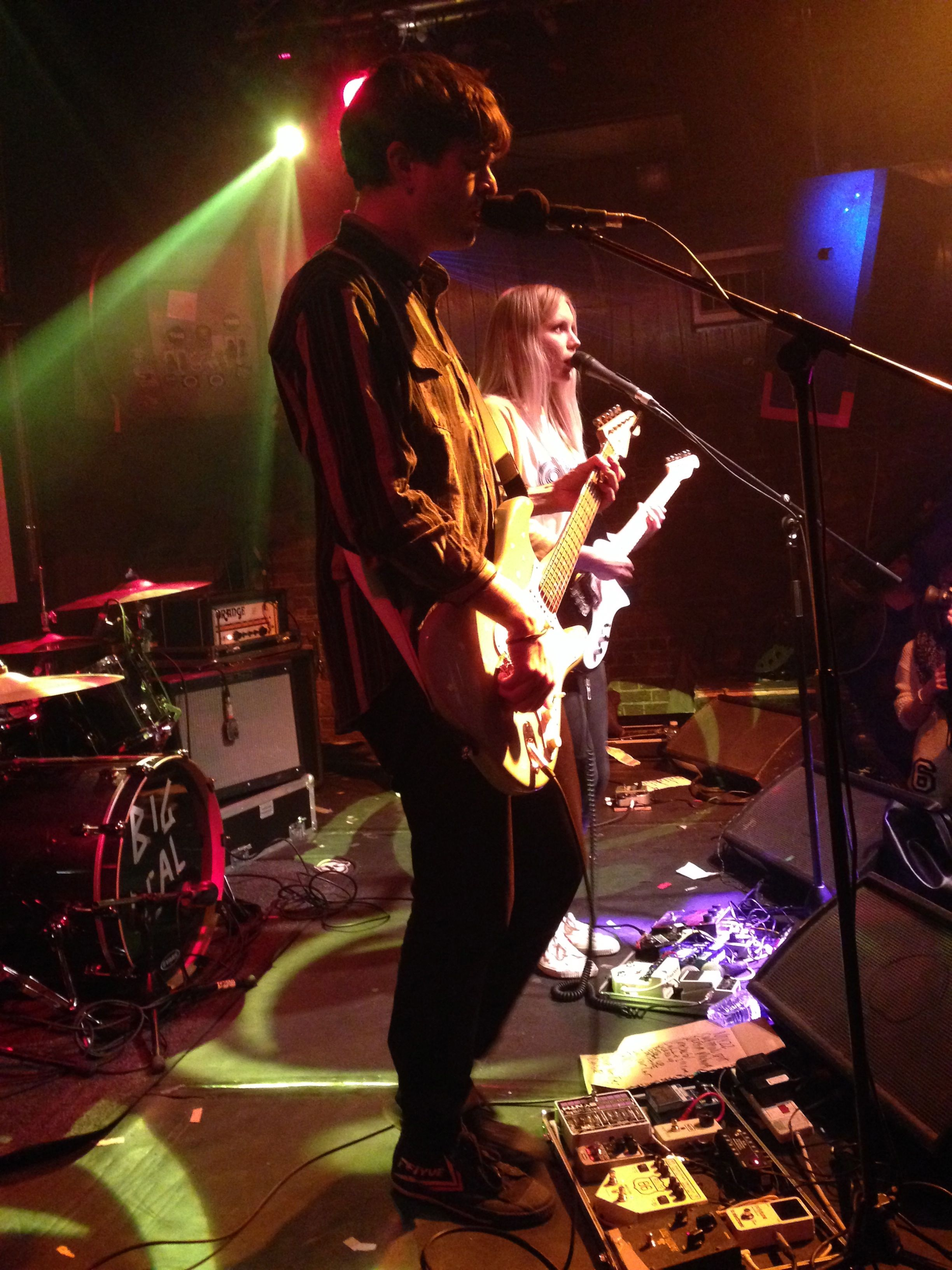 Picture from side of stage of Alice and K.C. singing